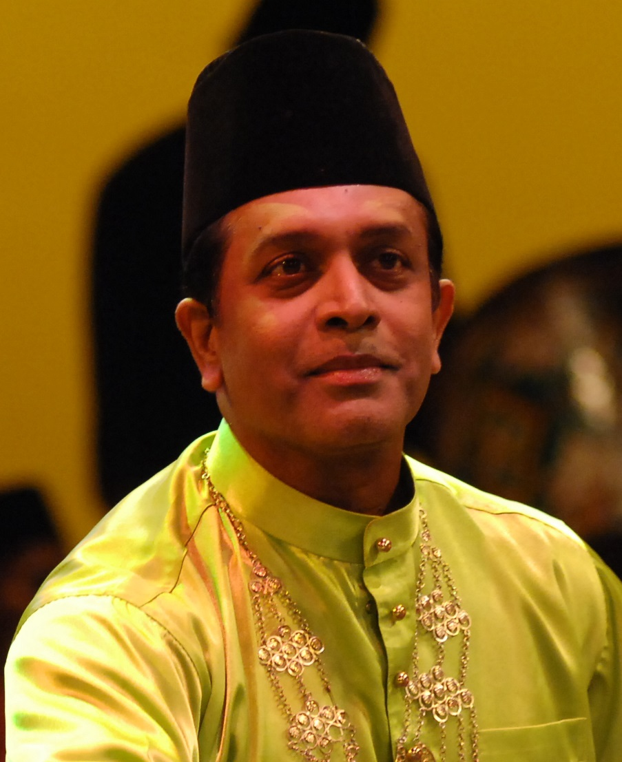 Malaysian choreographer Joseph Victor Gonzales